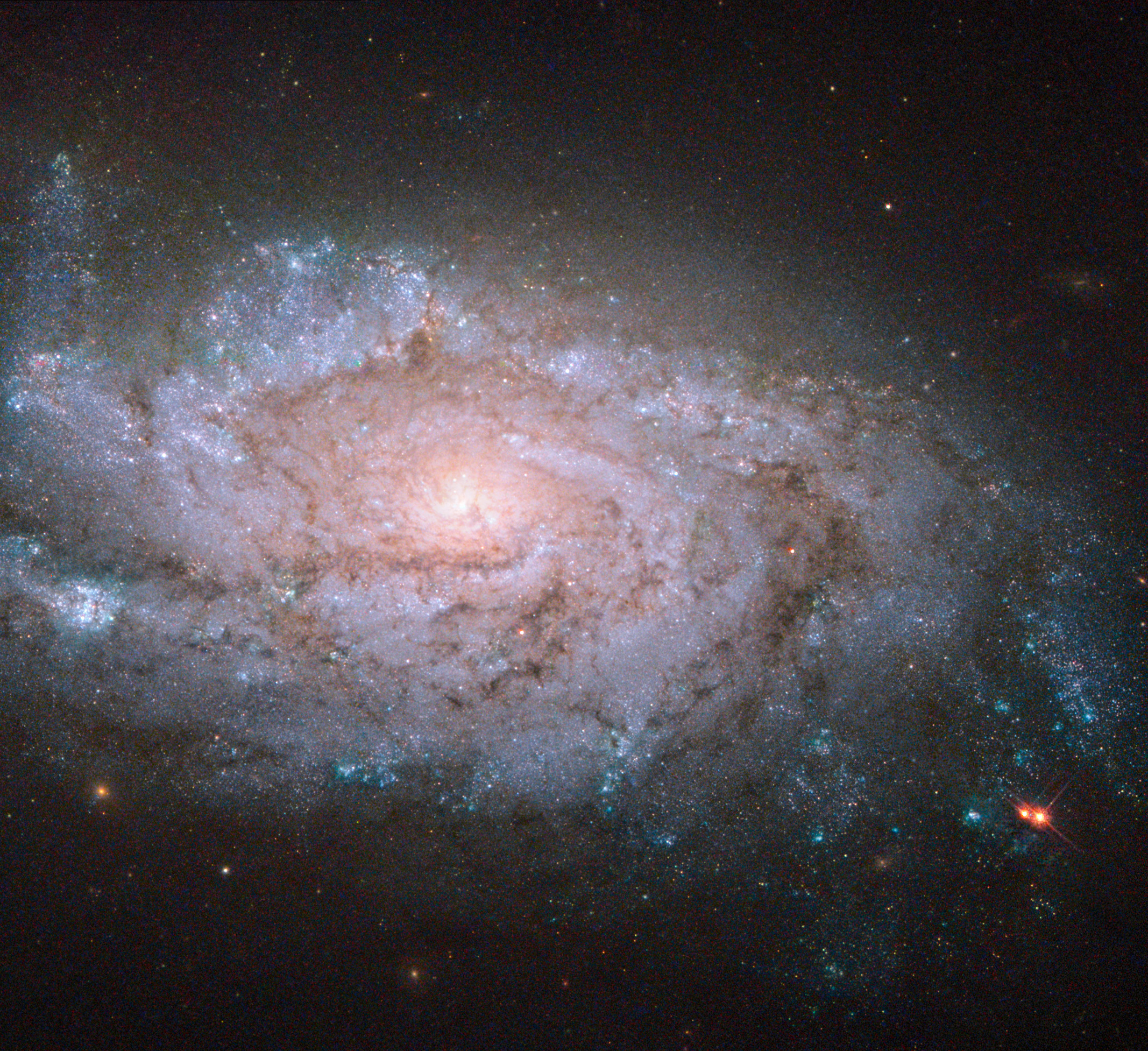 In this new Hubble image, we can see an almost face-on view of the galaxy NGC 1084. At first glance, this galaxy is pretty unoriginal. Like the majority of galaxies that we observe it is a spiral galaxy, and, as with about half of all spirals, it has no bar running through its loosely wound arms. However, although it may seem unremarkable on paper, NGC 1084 is actually a near-perfect example of this type of galaxy — and Hubble has a near-perfect view of it. NGC 1084 has hosted several violent events known as supernovae — explosions that occur when massive stars, many times more massive than the Sun, approach their twilight years. As the fusion processes in their cores run out of fuel and come to an end, these stellar giants collapse, blowing off their outer layers in a violent explosion. Supernovae can often briefly outshine an entire galaxy, before then fading away over several weeks or months. Although directly observing one of these explosions is hard to do, in galaxies like NGC 1084 astronomers can find and study the remnants left behind. Astronomers have noted five supernova explosions within NGC 1084 over the past half century. These remnants are named after the year in which they took place — 1963P, 1996an, 1998dl, 2009H, and 2012ec. The most recent explosion, 2012ec, was detected at the end of NGC 1084’s top right arm in August 2012. It is not visible here as these images were taken in 2001, some eleven years before this supernova exploded. Astronomers at Queen's University Belfast have managed to use these "before" images to directly identify the star that exploded. It appears to be a red supergiant some 10 to 20 times more massive than the Sun, and quite similar to the well-known star Betelguese in Orion. A version of this image was entered into the Hubble's Hidden Treasures image processing competition by Flickr user Brian Campbell (Sinickel).